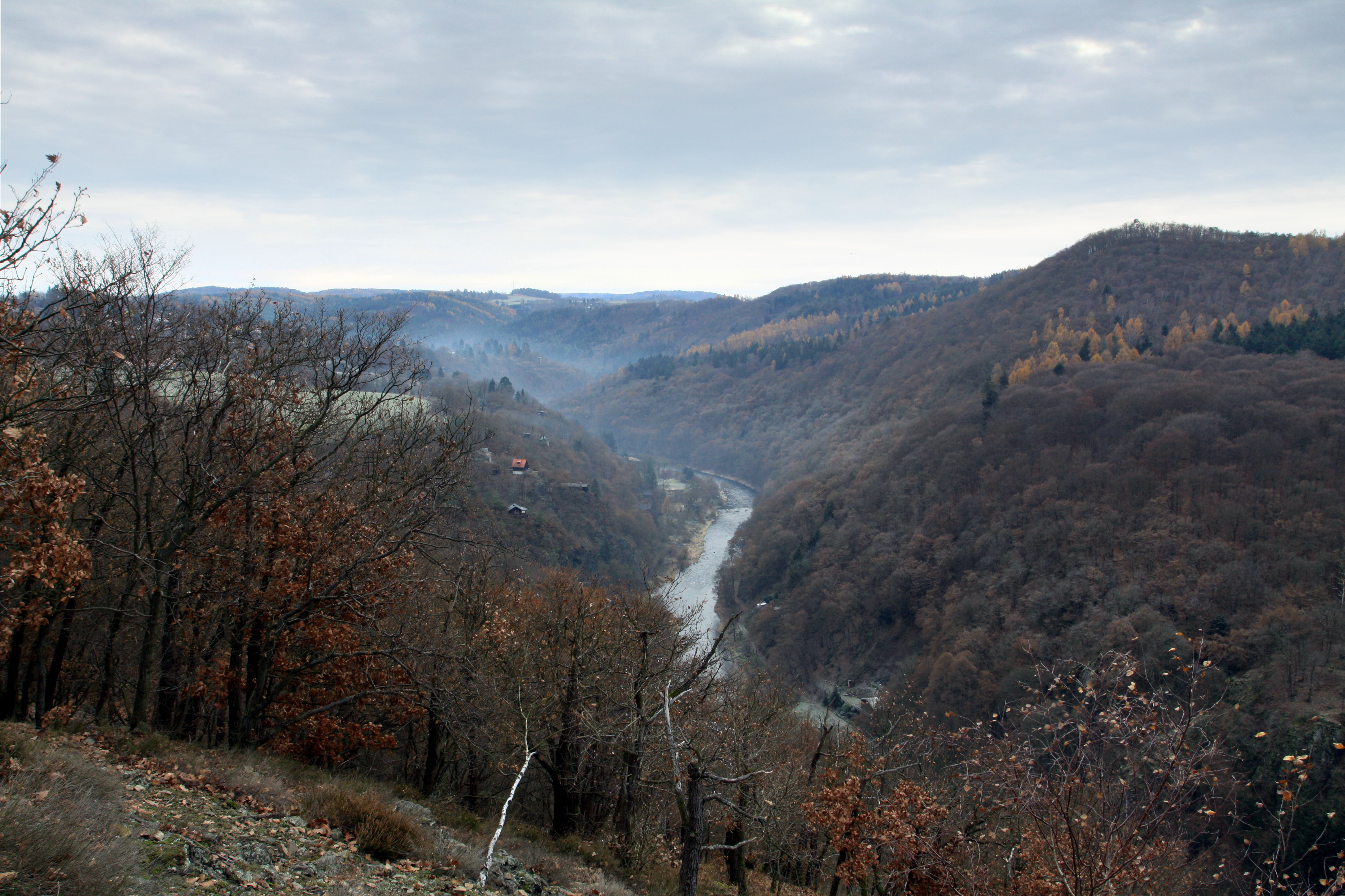 Natural monument Třeštibok in the valley of Sázava River located near Jílové u Prahy, District Prague-West, Czech Republic